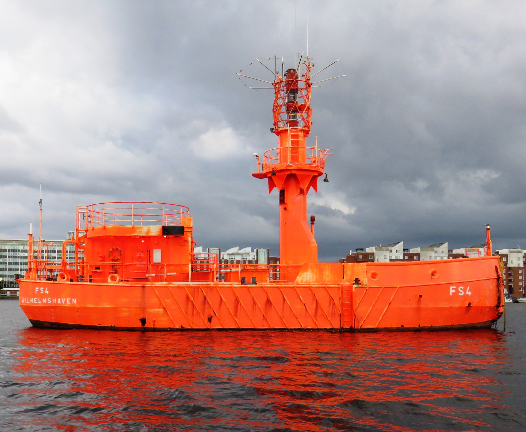 Unmanned lightvessel FS 4 on static display in Wilhelmshaven